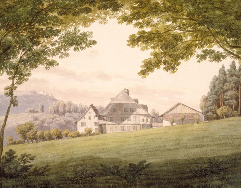 The estate "Erndhalde" near Gelterkinden, Switzerland, in the year 1875. Watercolor by Samuel Birmann.